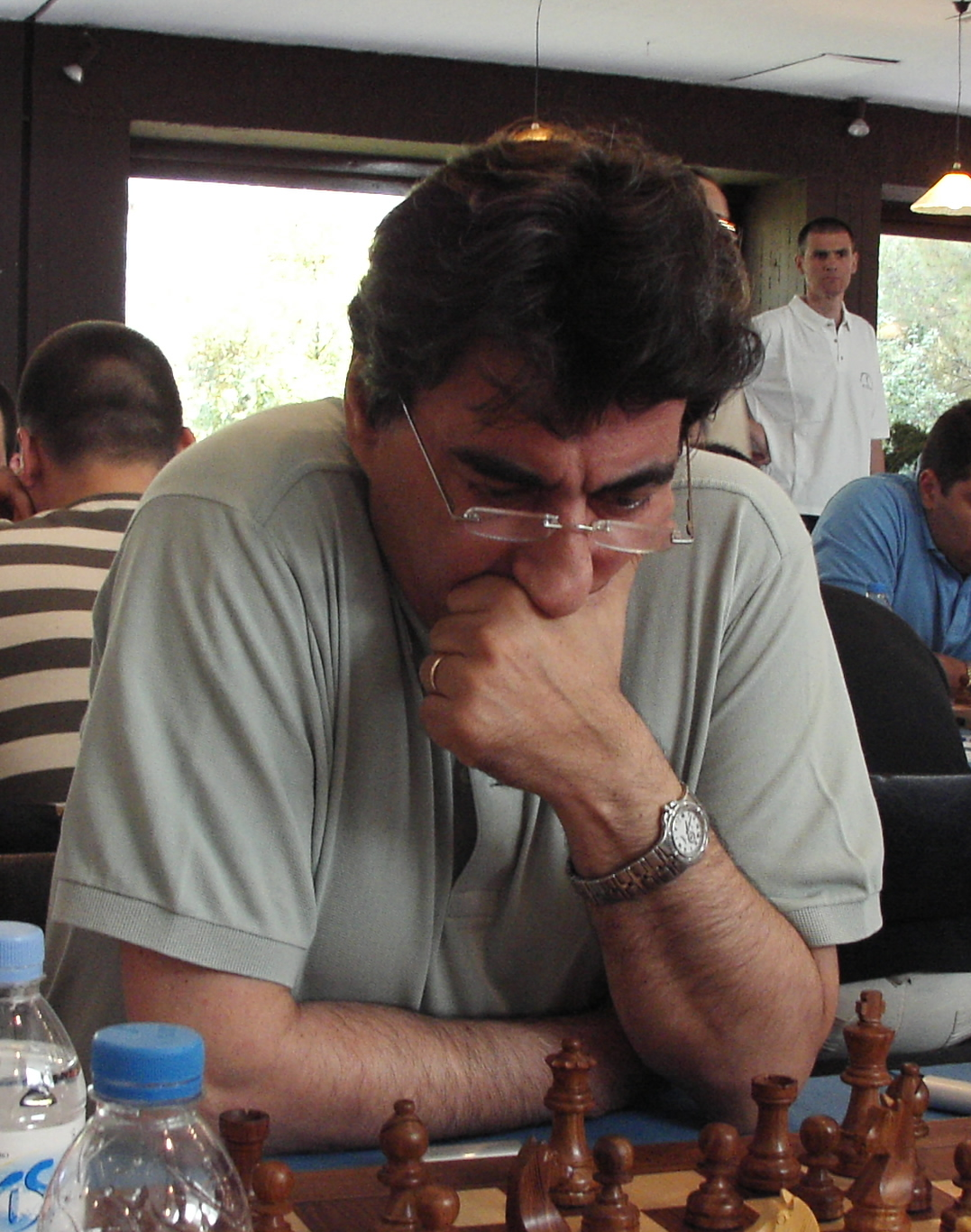 FIDE Deputy President Mr. Georgios MAKROPOULOS